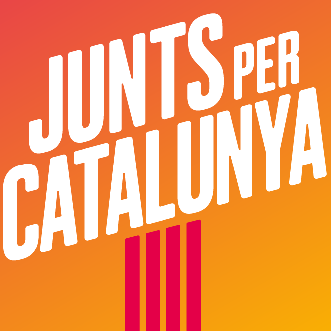 Junts per Catalunya logo for the 2017 Catalan regional election.